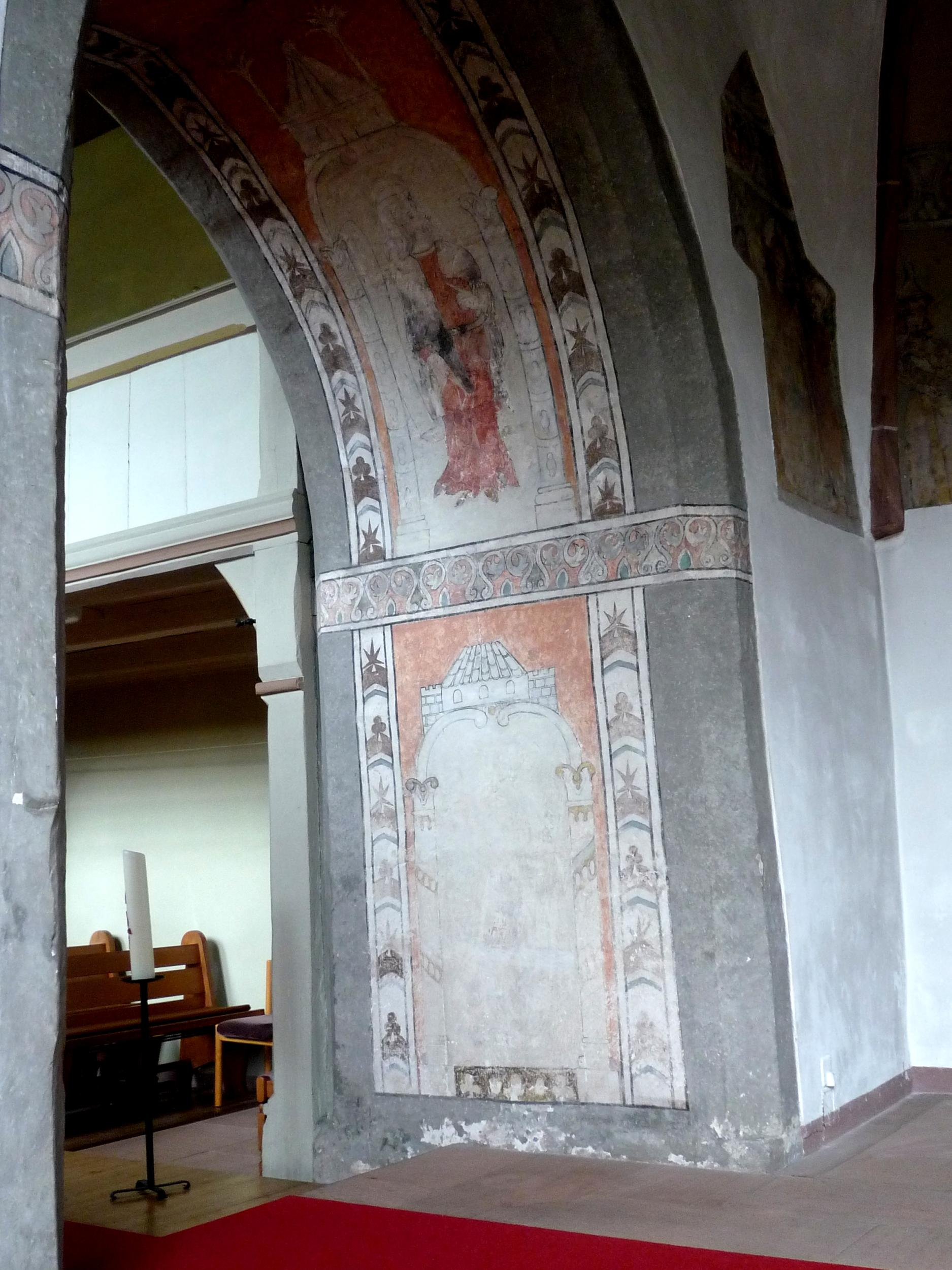 Fresko in the Church at Rumbach (Palatinate)